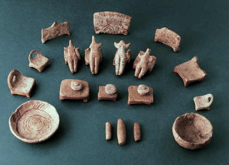 Cult_scene_Ovcharovo_tell_arranged_at_Targovishte_museum